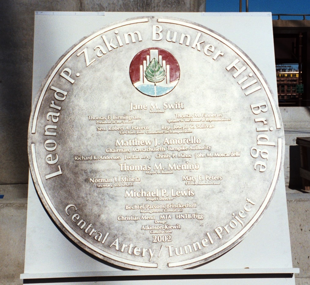 Image of Zakim/BH bridge dedication plaque from 2002 bridge walk.